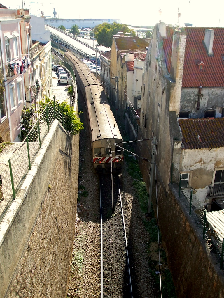 Railway Linha do Sul passing Setúbal